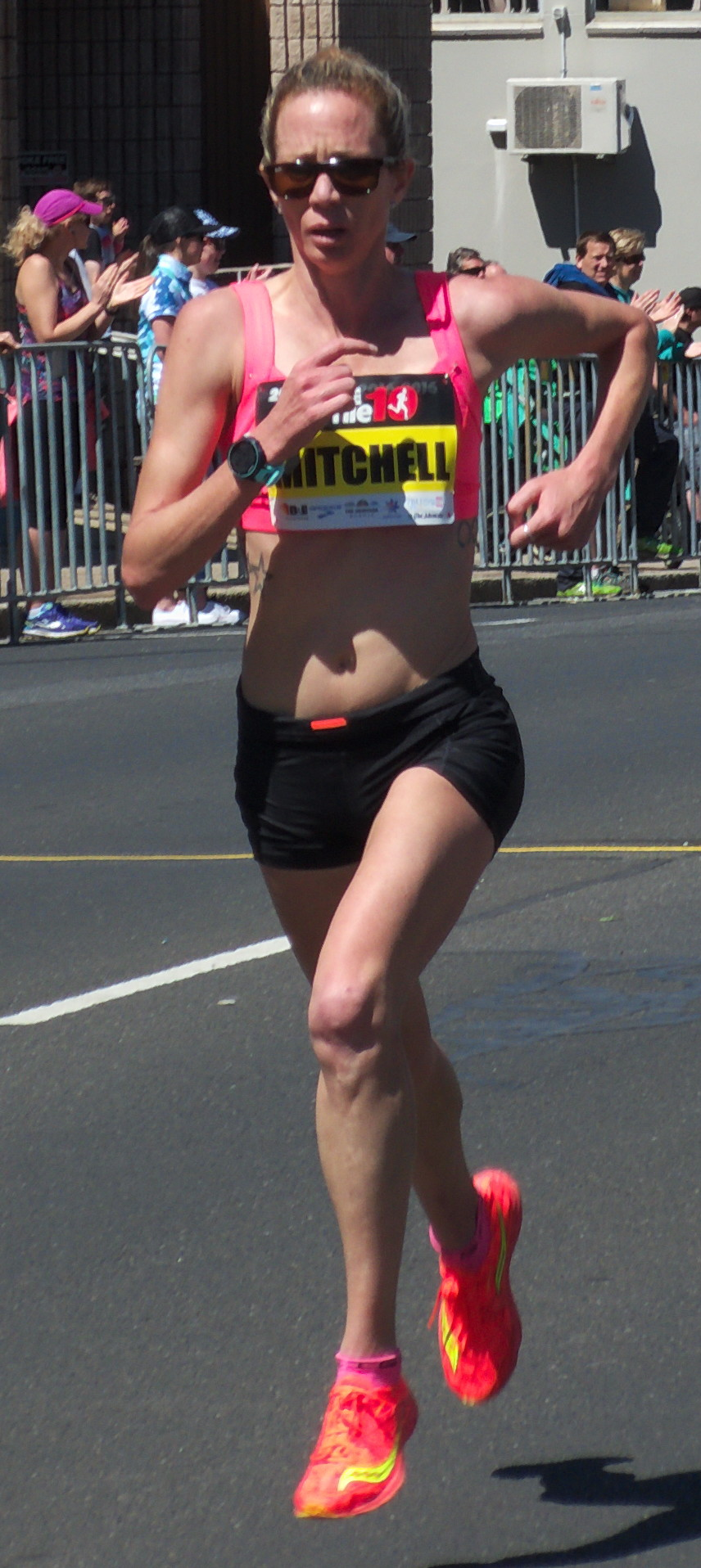 Victoria Mitchell finishing 2nd in the 2016 Burnie Ten.